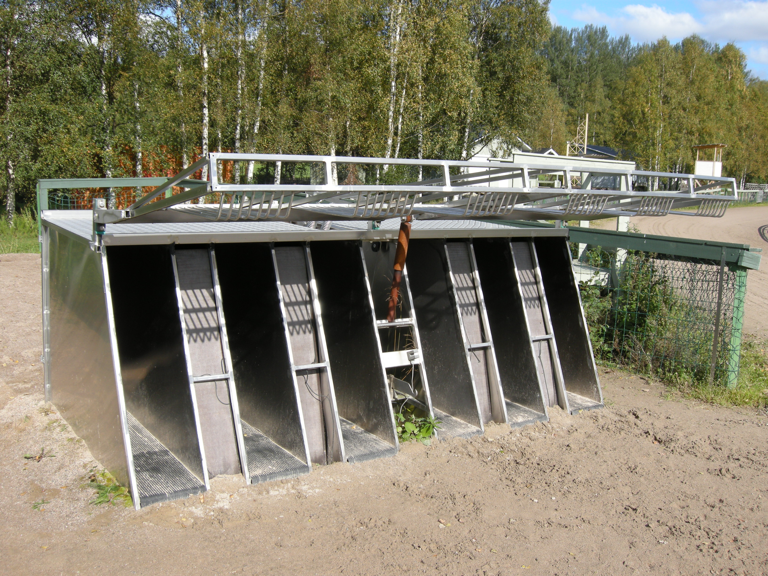 Start in Sighthound track